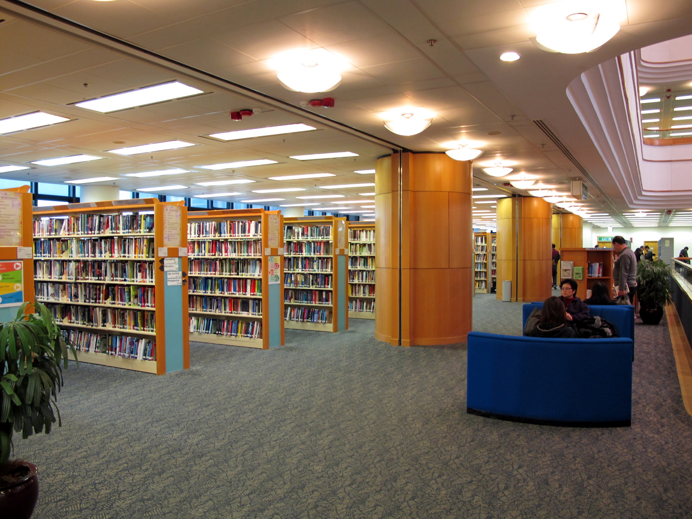 Hong Kong Central Library Level 3